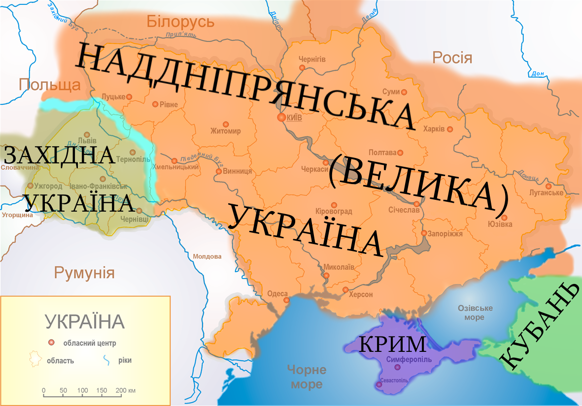 General ethnic Ukraine.